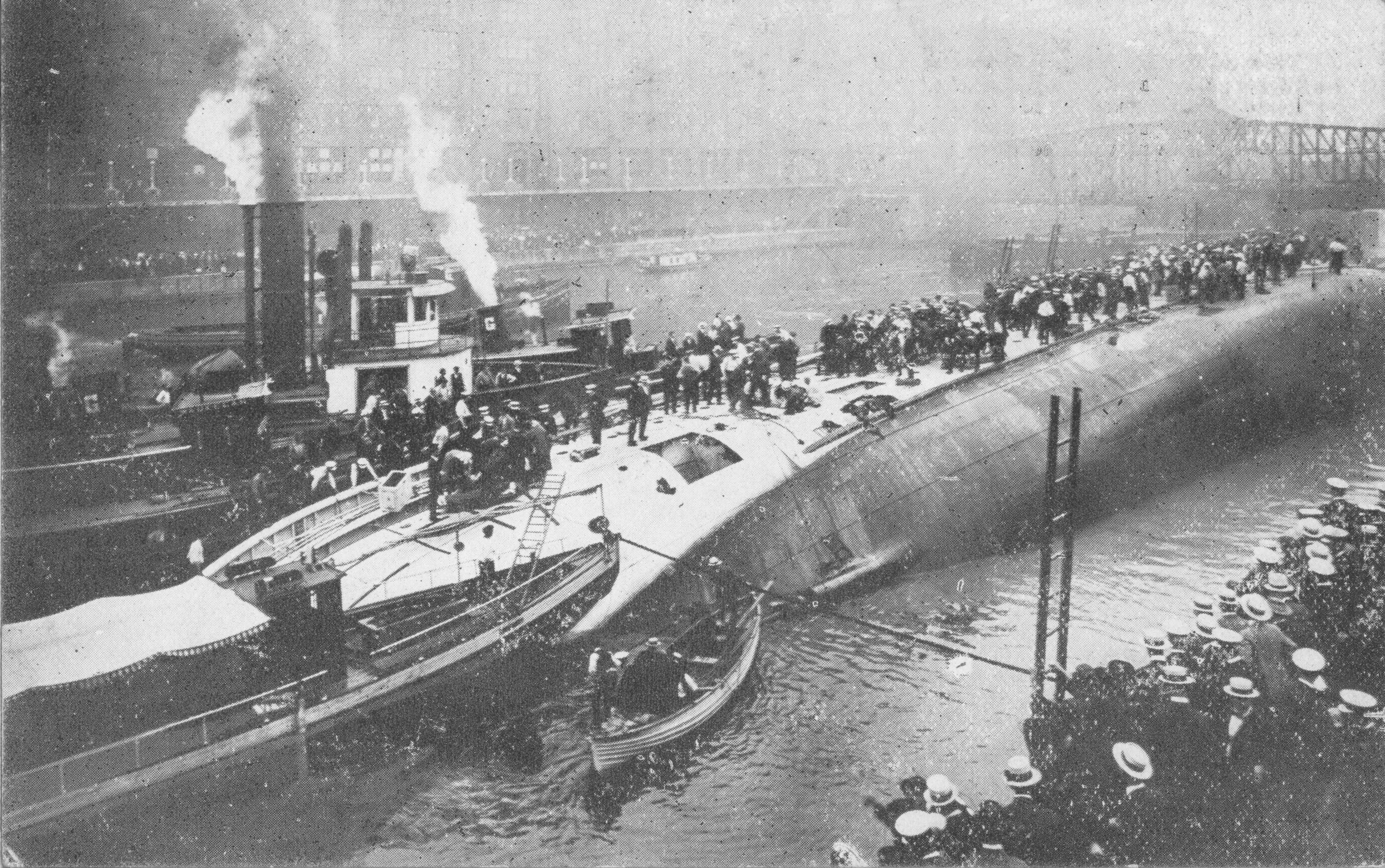 View of Eastland taken from south side of river, shortly after accident, showing the rescuers anxiously at work. Police had not yet removed the throngs of curious which lined both sides of the river.